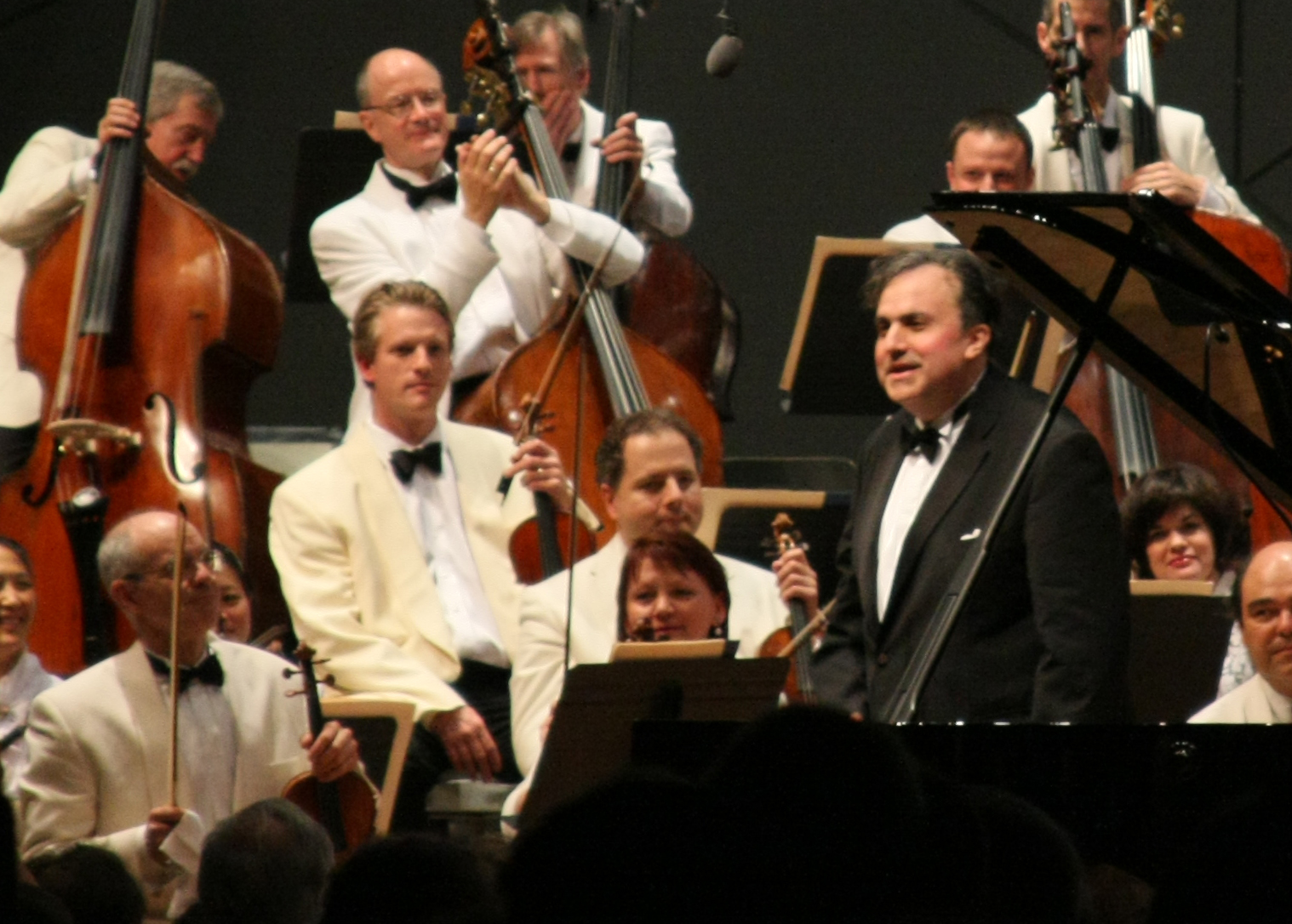 Yefim Bronfman at Tanglewood, following his performance of Tchaikovsky's Piano Concerto No. 1 on July 3, 2009.